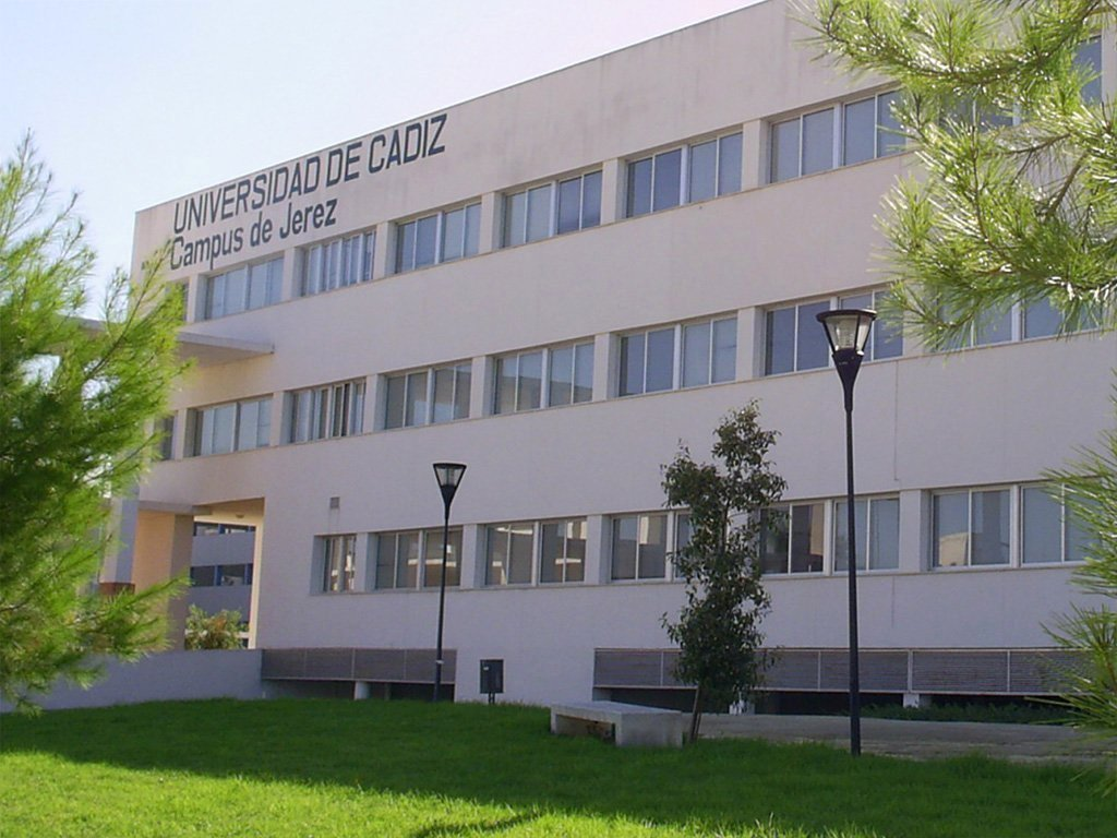 Jerez Campus (Campus de Jerez) in Jerez de la Frontera, Andalusia, Spain.